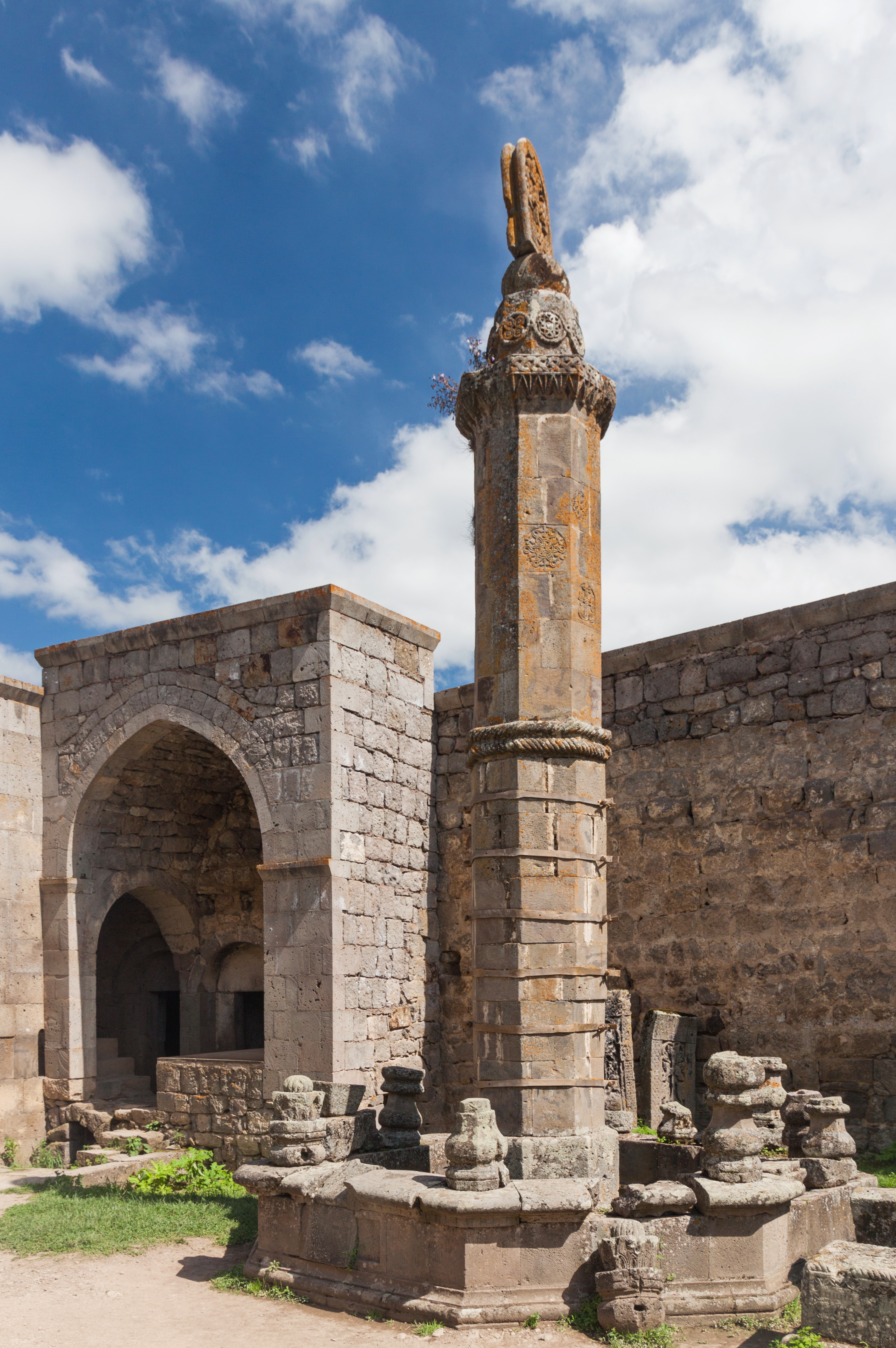 Tatev monastery. Tatev, Syunik Province, Armenia.